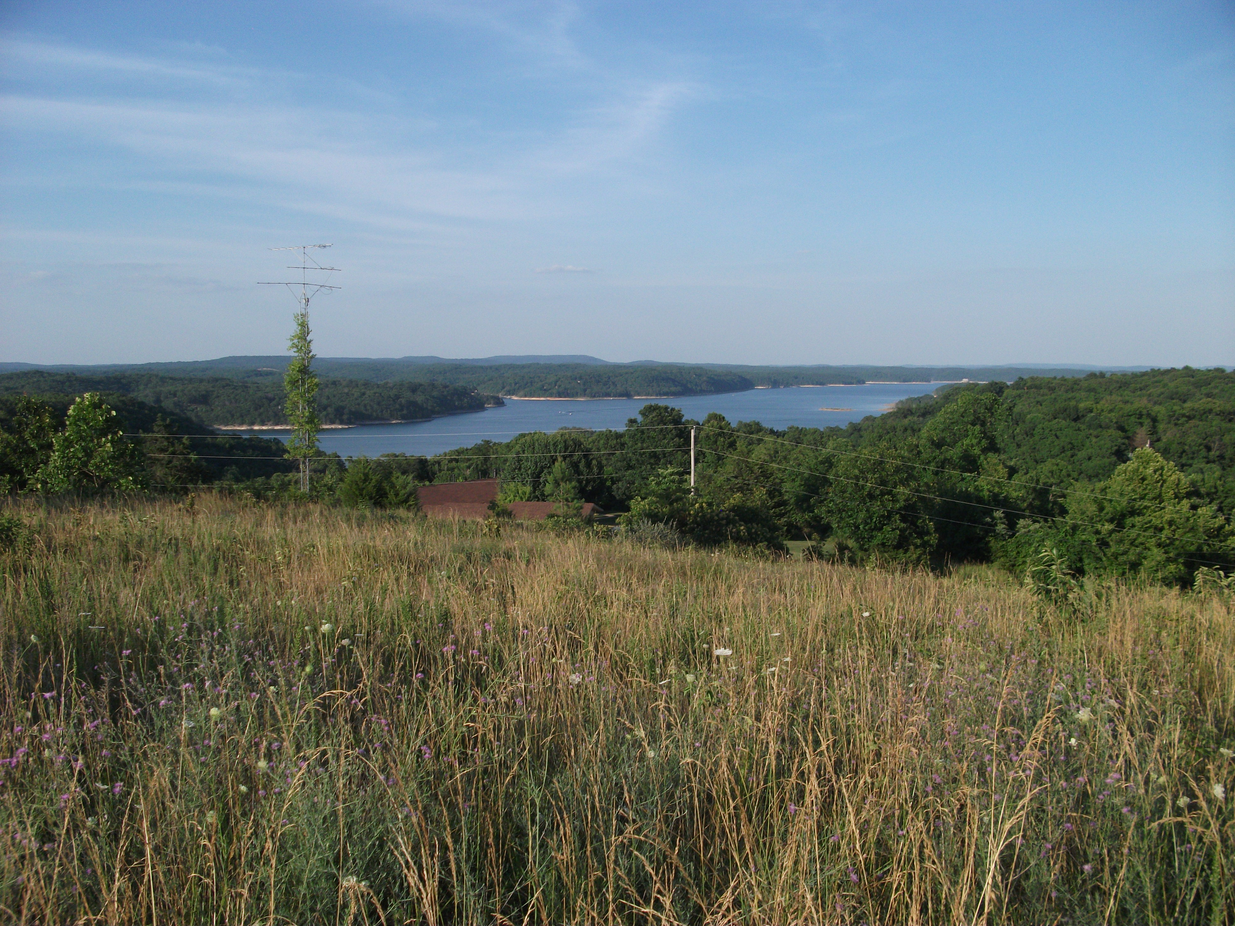 This is a photo from a hilltop in Prairie Creek, Arkansas overlooking Beaver Lake.